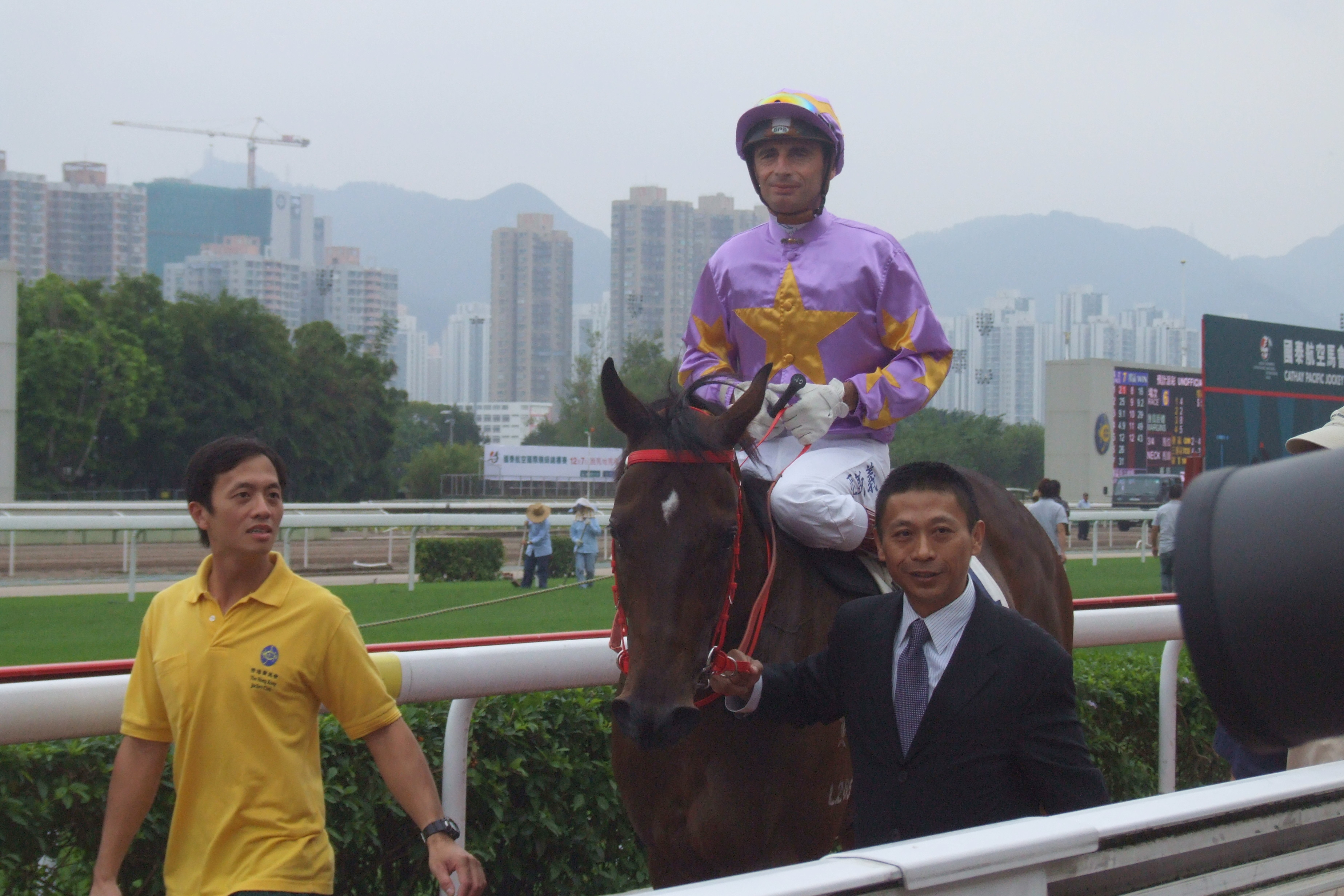 Little Bridge